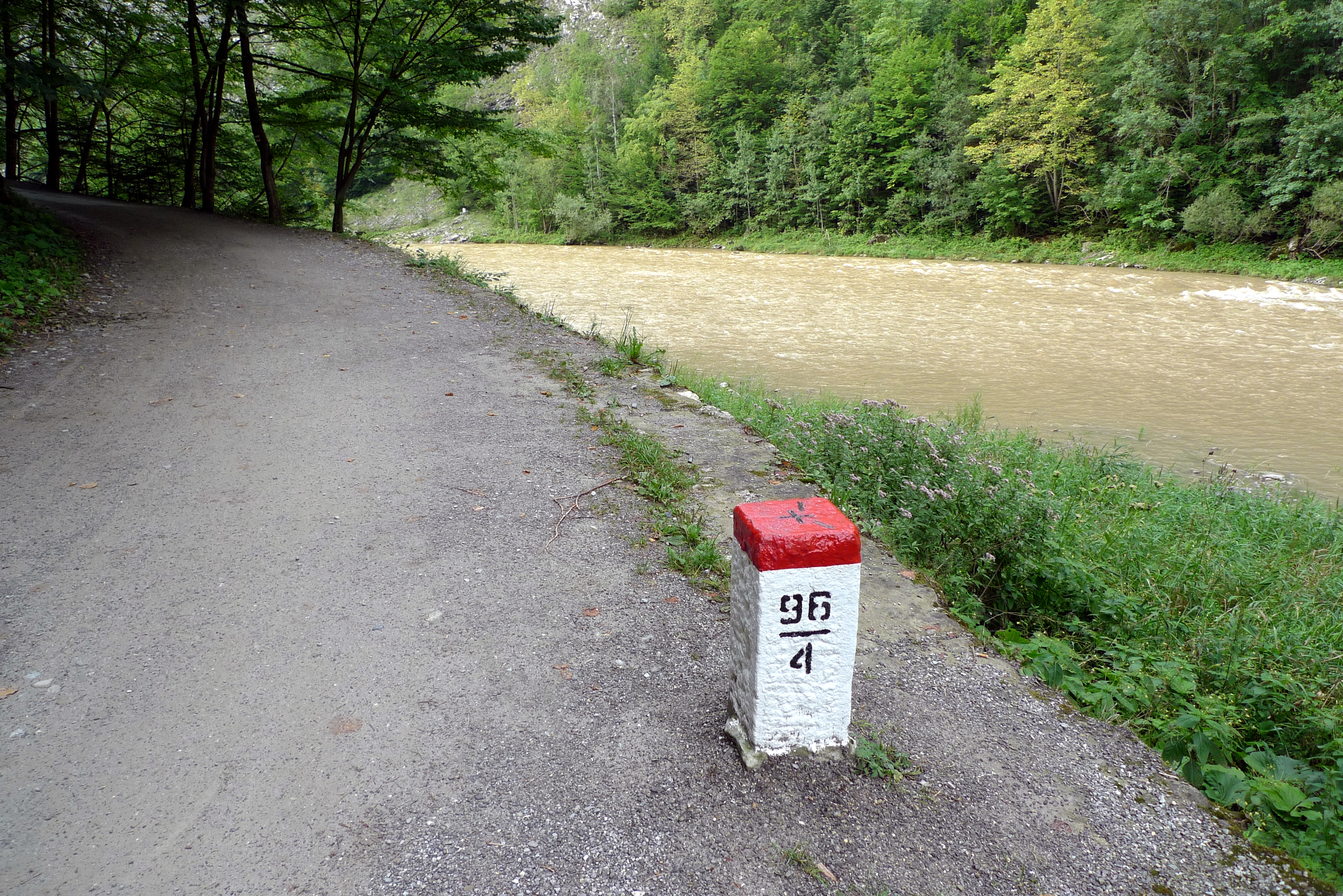 Boundary stone on Slovak-Polish border by the river Dunajec.